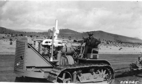 1931—A new Caterpillar Sixty for road work. Photo by F. L. Kirby FS #256545